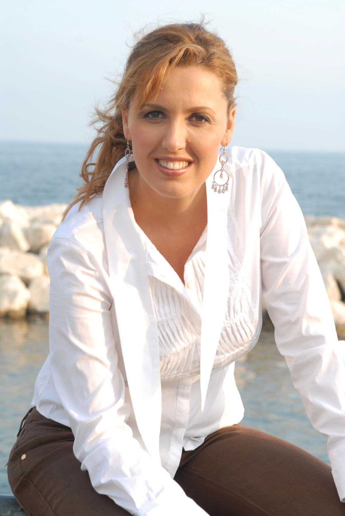 Italian actress Veronica Mazza